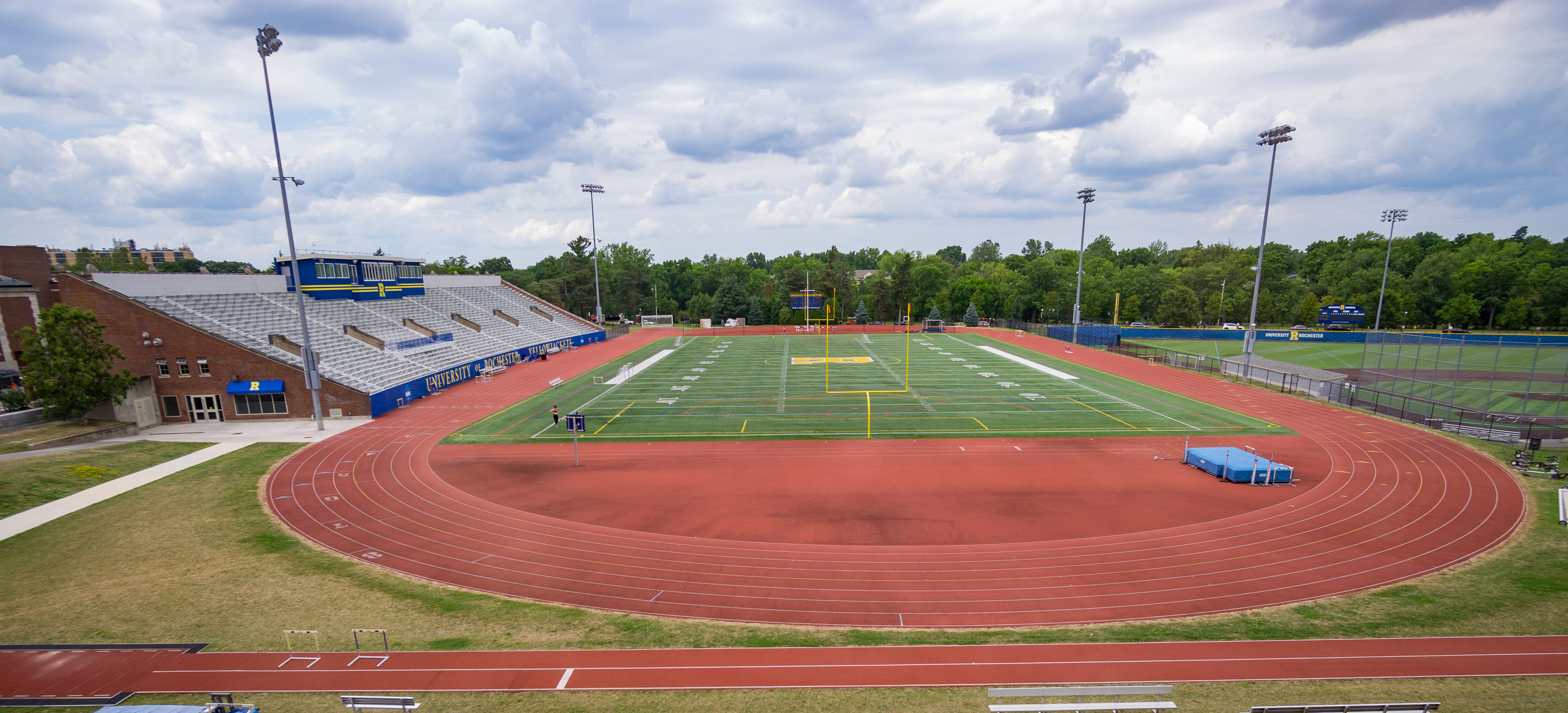 Fauver Stadium Field at the University of Rochester, viewed from Genesee Hall.